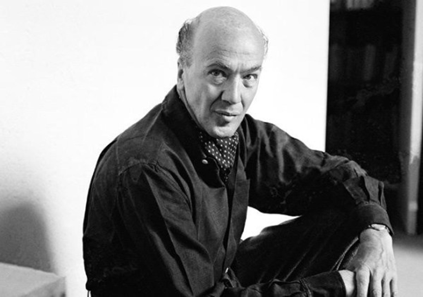 LuiszyuBarrsb